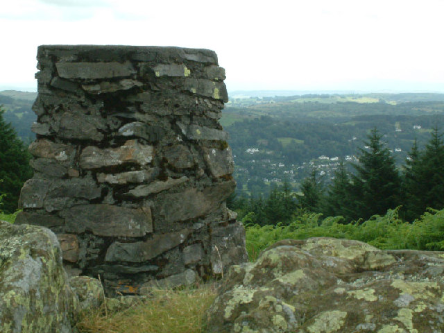 Claife Heights. The trig point on the top of Claife Heights (270m or 886ft above sea level). This is the top of the high ground between Windermere and Hawkshead.